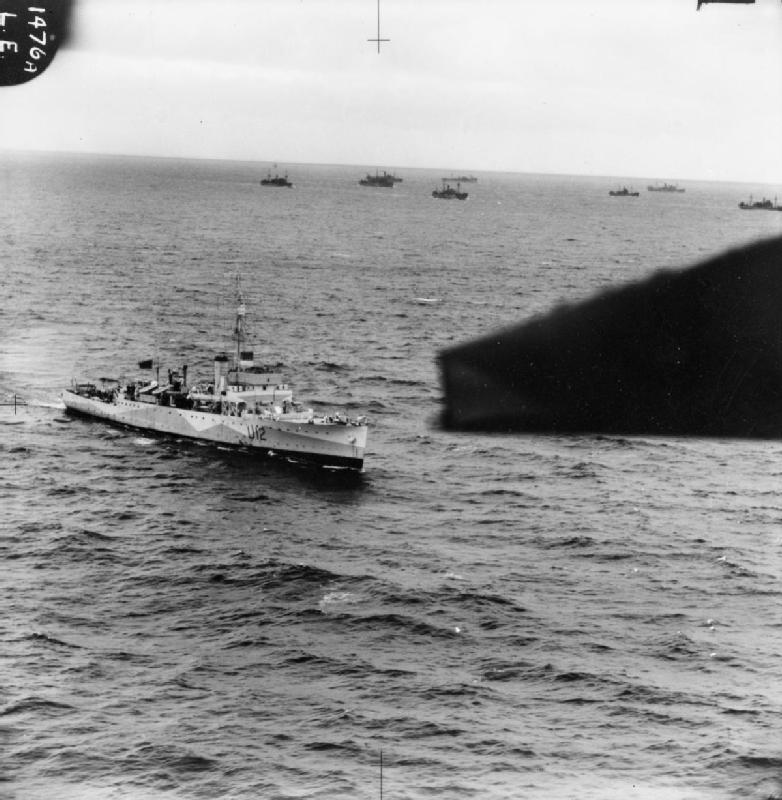 Aerial photograph of British Bridgewater class sloop HMS Sandwich, with part of a convoy in the background.